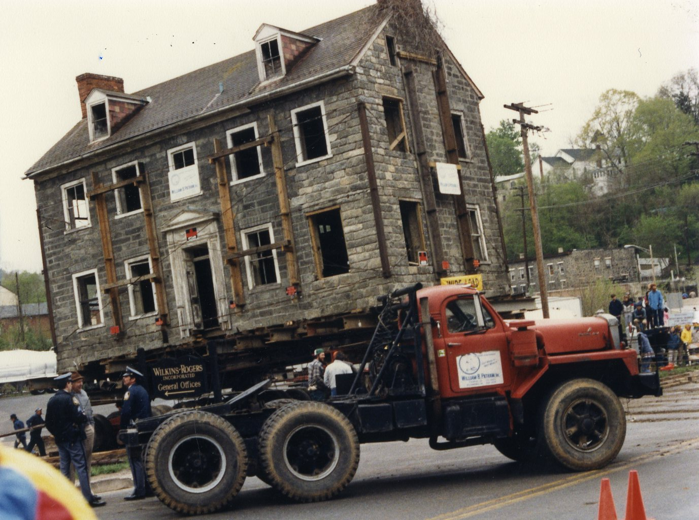 Exterior shot of the George Ellicott House in Oella, MD being moved to higher ground following Hurricane Agnes, in 1987. Scanned from the Preservation Maryland physical photograph collection.